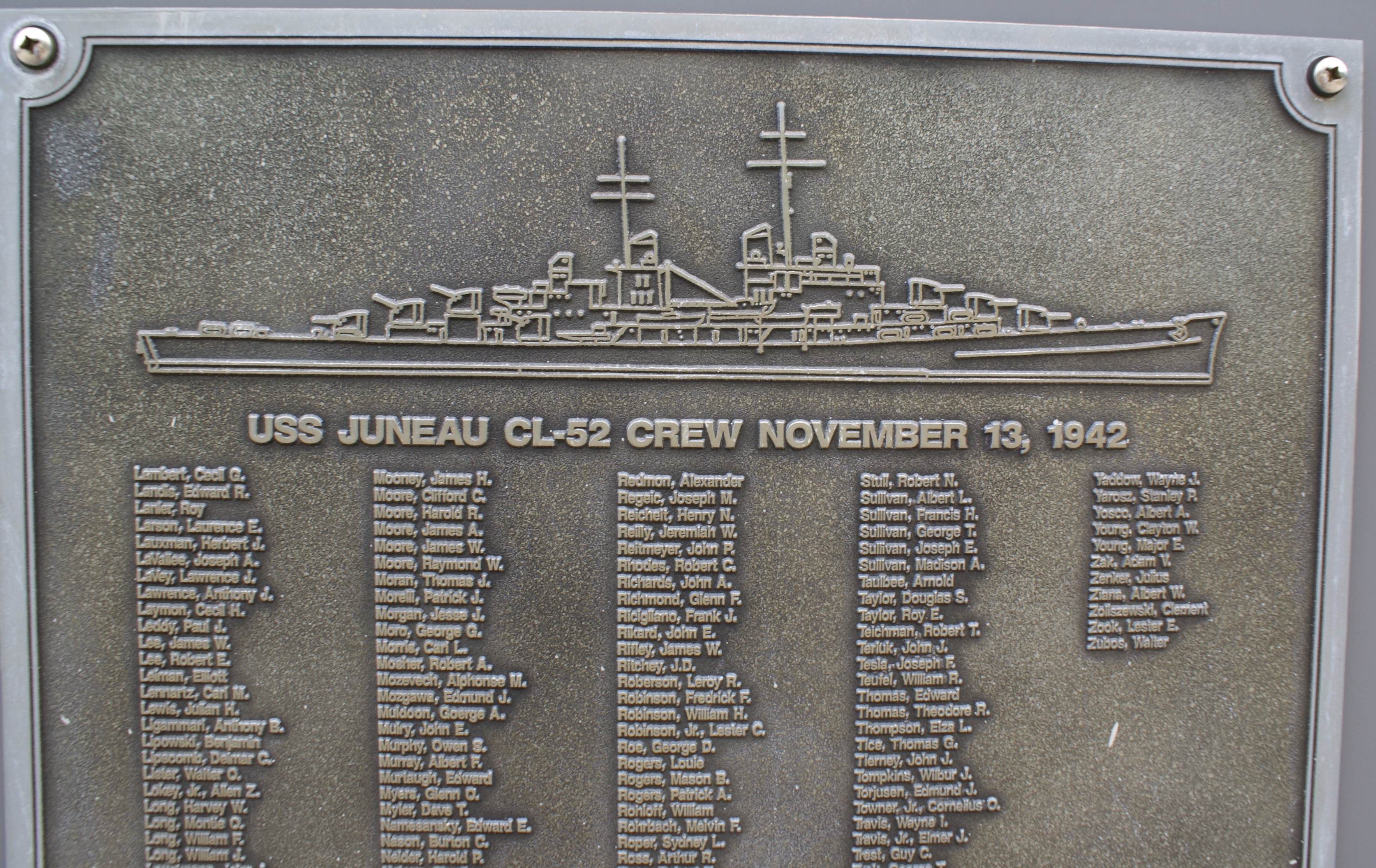 A memorial placed on the cruise ship docks of Juneau, Alaska, to the crew of the USS Juneau (CL-52), almost all of whom perished at the Naval Battle of Guadalcanal in November 1942